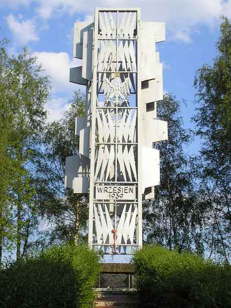 Borowa Hill Monument.